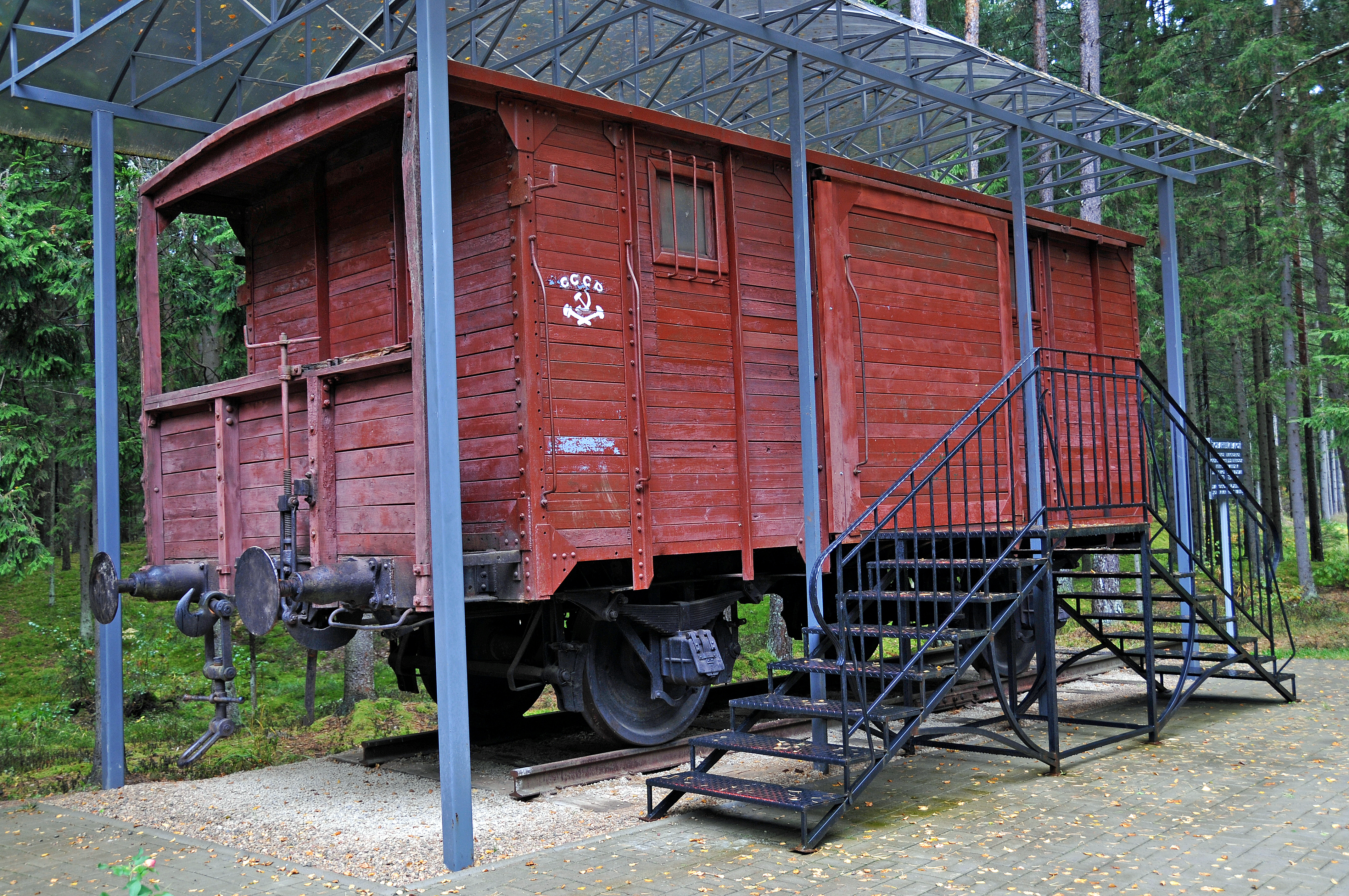 This is a boxcar that was used to take people to prison camps run by the Union of Soviet Socialist Republic. 54°46'29"N 31°47'20"E